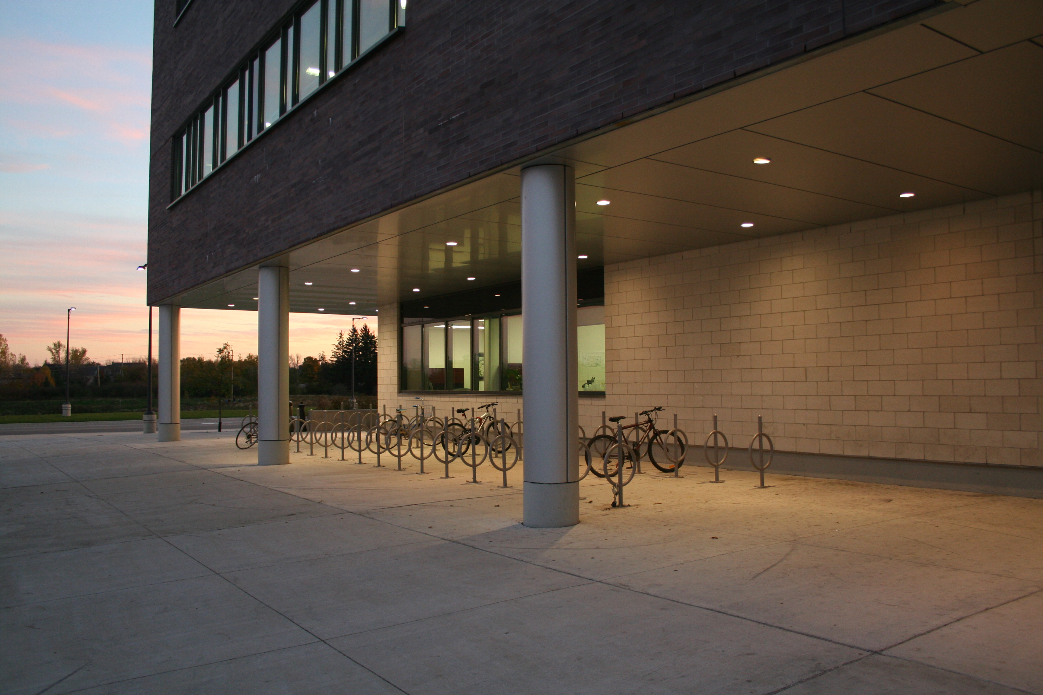 This image shows the bike rack at one of the entrances to the Cambridge Campus of Conestoga College